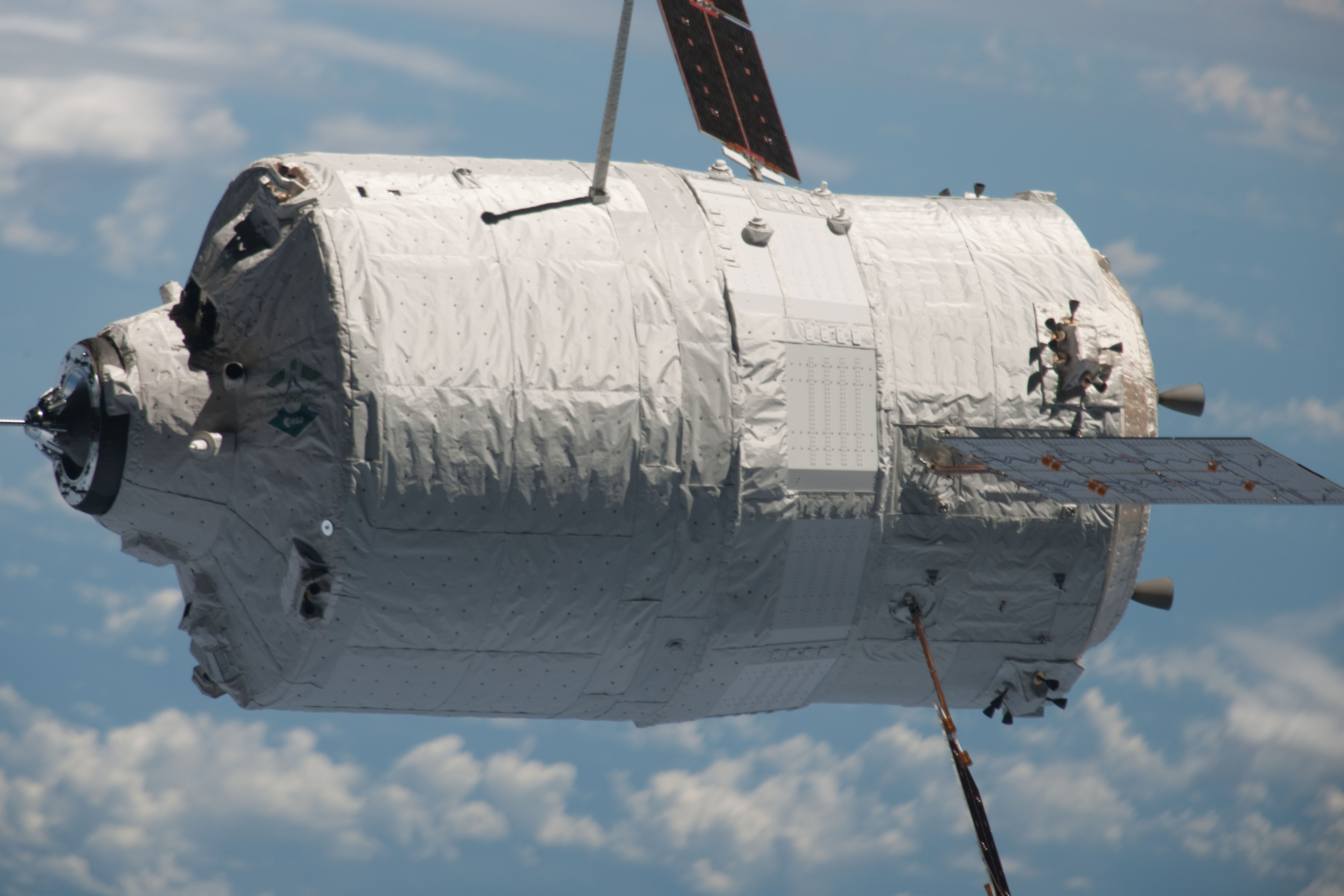 European Space Agency's "Edoardo Amaldi" Automated Transfer Vehicle-3 (ATV-3) approaches the International Space Station. The unmanned cargo spacecraft docked to the space station at 6:31 p.m. (EDT) on March 28, 2012, delivering 220 pounds of oxygen, 628 pounds of water, 4.5 tons of propellant, and nearly 2.5 tons of dry cargo, including experiment hardware, spare parts, food and clothing.